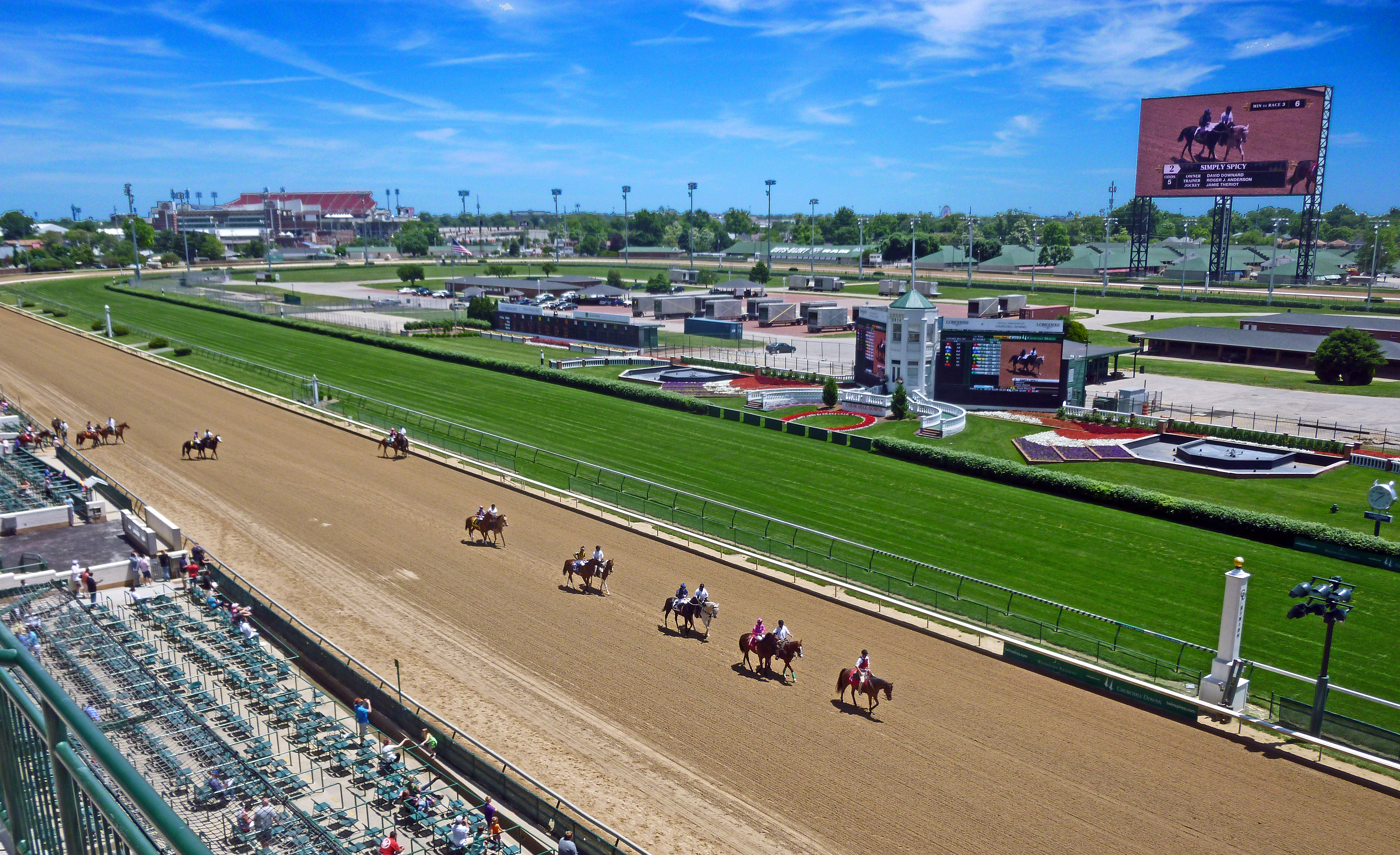 Churchill Downs in Louisville, Kentucky, is the home of the Kentucky Derby.